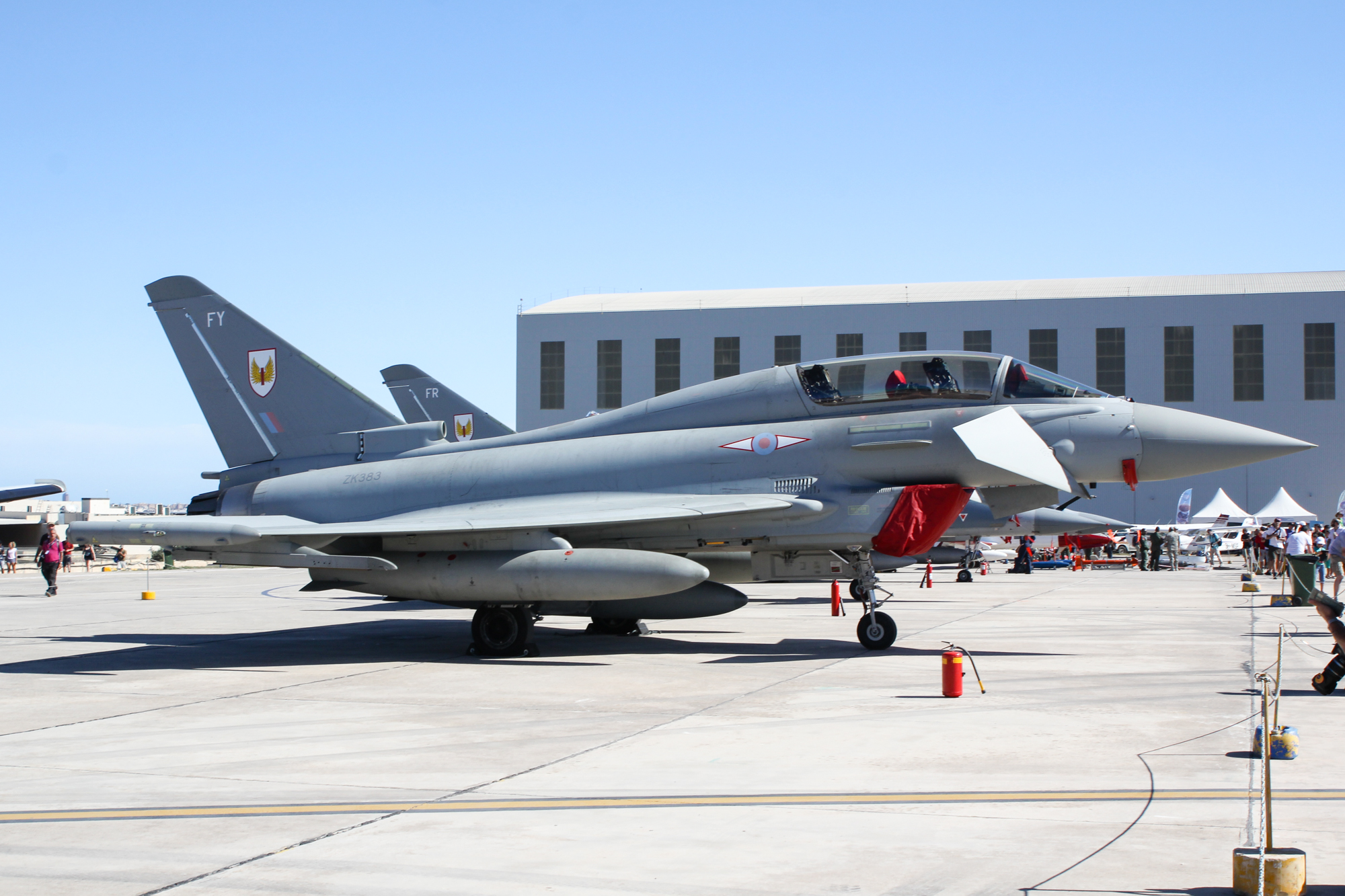 Royal Air Force Typhoon T.3 ZK383 at the 2015 Malta International Airshow